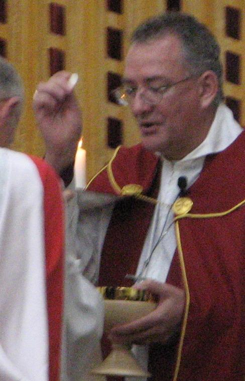 Archbishop Phillip Aspinall, the Anglican Archbishop of Brisbane, Queensland, Australia from February en:2002, and Primate of the Anglican Church of Australia from July en:2005. Aspinall is administering Holy Communion. Picture taken by me on en:29 June en:2007 at the Chapel of St Paul, Royal Military College, Duntroon, on the occasion of the consecration and investiture of Bishop Len Eacott as Anglican Bishop to the Australian Defence Force. - Peter Ellis - Talk 13:17, 29 June 2007 (UTC)